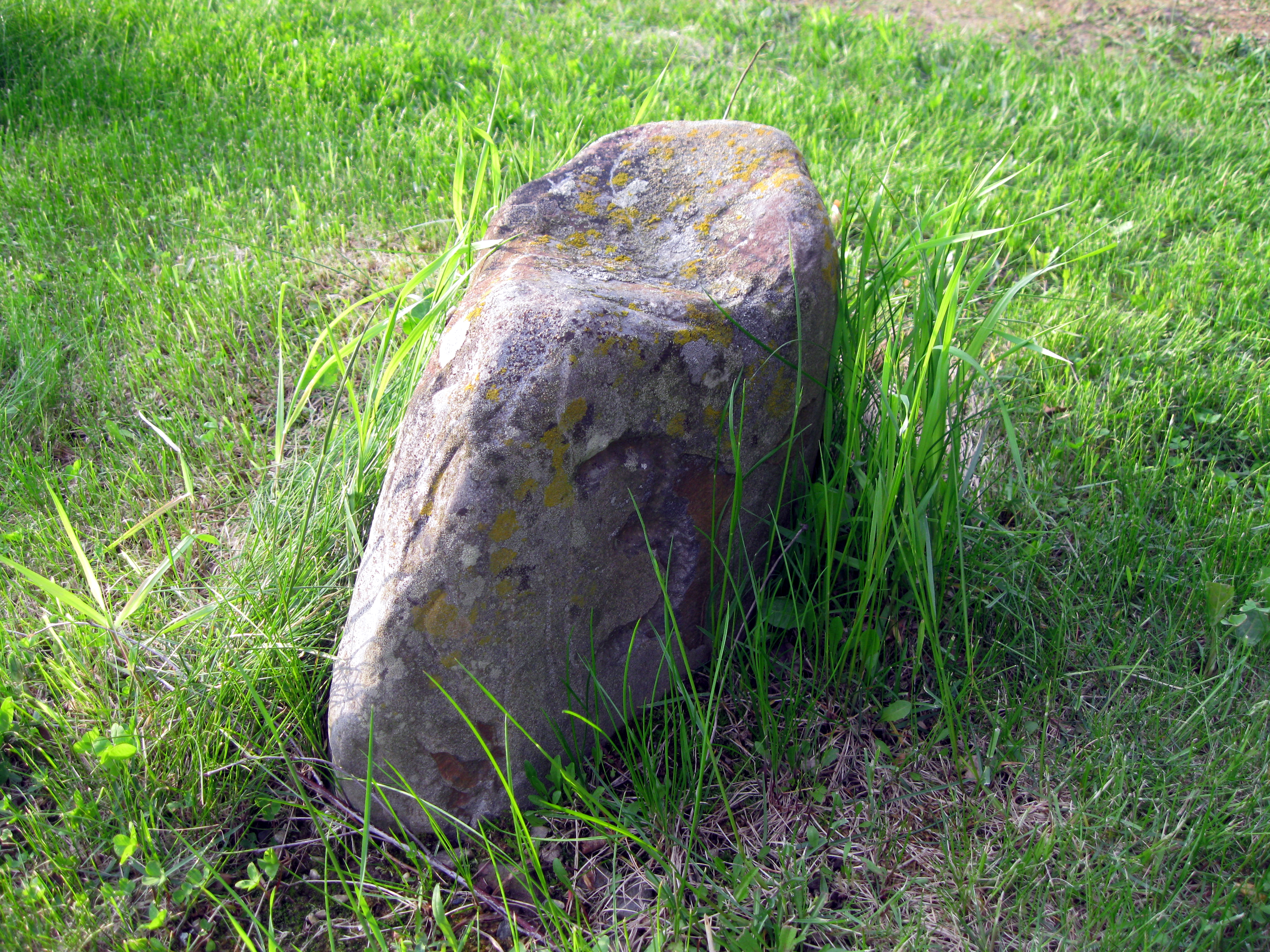 Border stone in Finland.